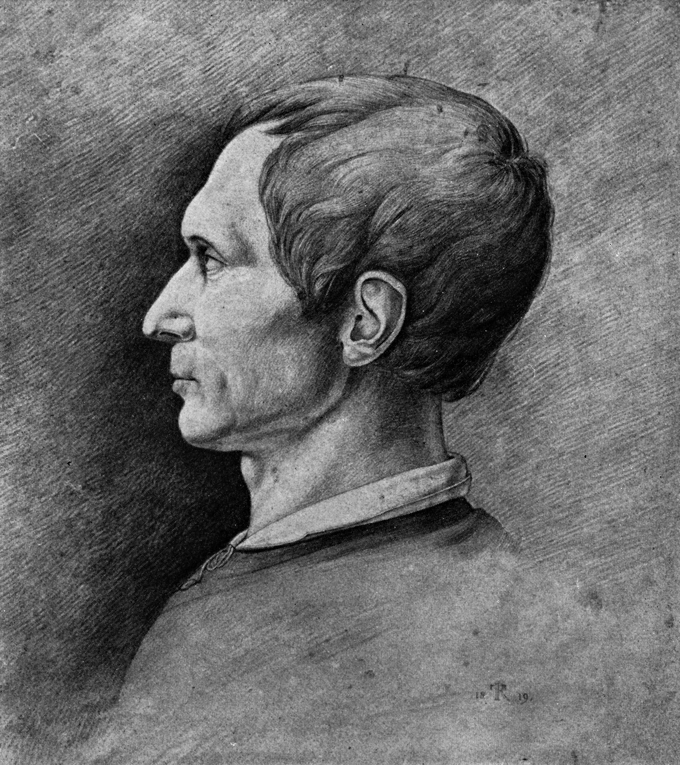 Peter Cornelius (1783-1867), german painter; 1819; 19:17 cm